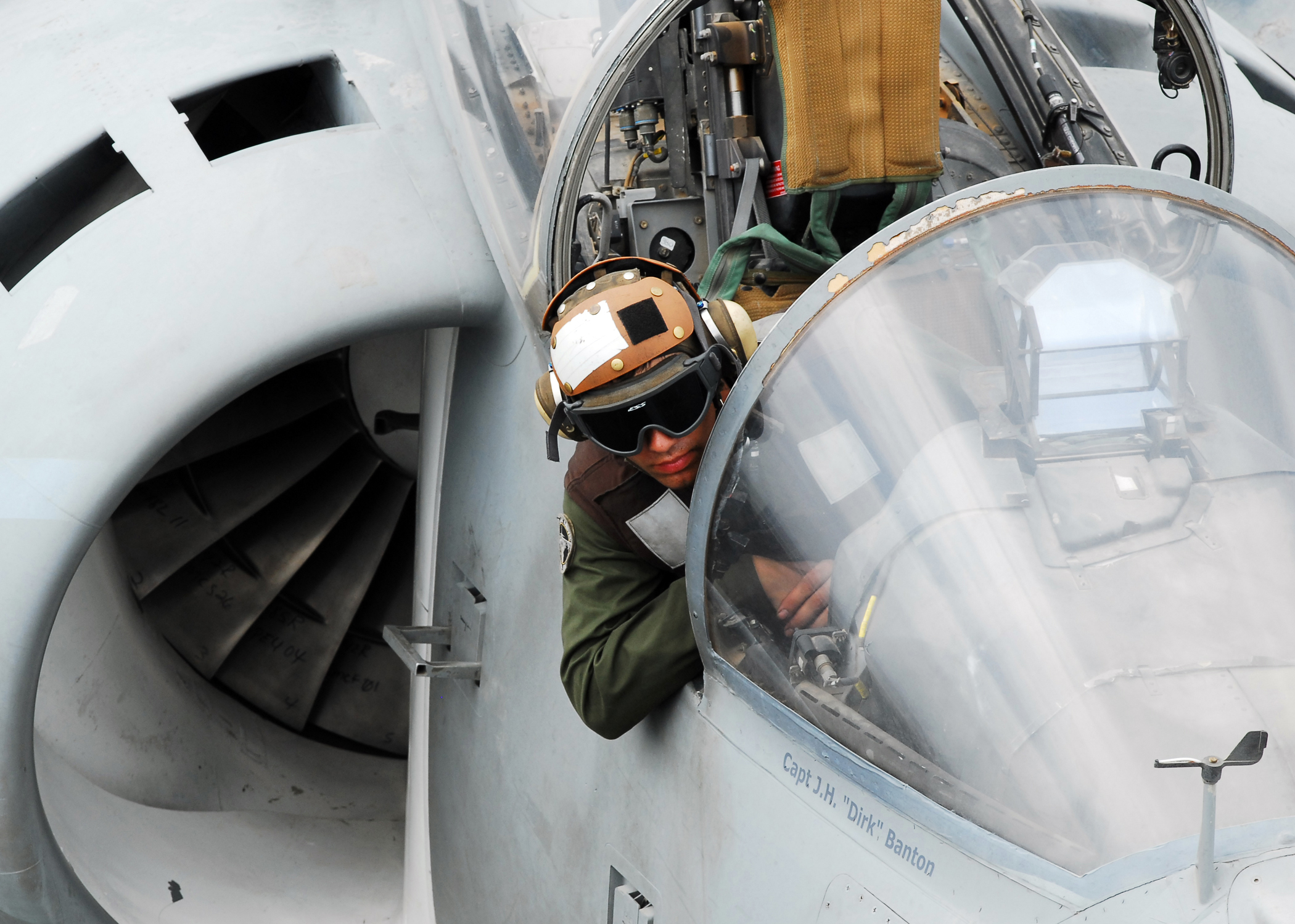 INDIAN OCEAN (Sept. 22, 2008) A plane captain of an AV-8B Harrier jet guides the aircraft as it is towed on the flight deck aboard the amphibious assault ship USS Peleliu (LHA 5). Peleliu is deployed supporting maritime security operations in the U.S. 5th Fleet area of responsibility. (U.S. Navy photo by Mass Communication Specialist 2nd Class Dustin Kelling/Released)